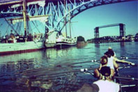 Western Reserve Rowing Association, Picture taken by WRRA